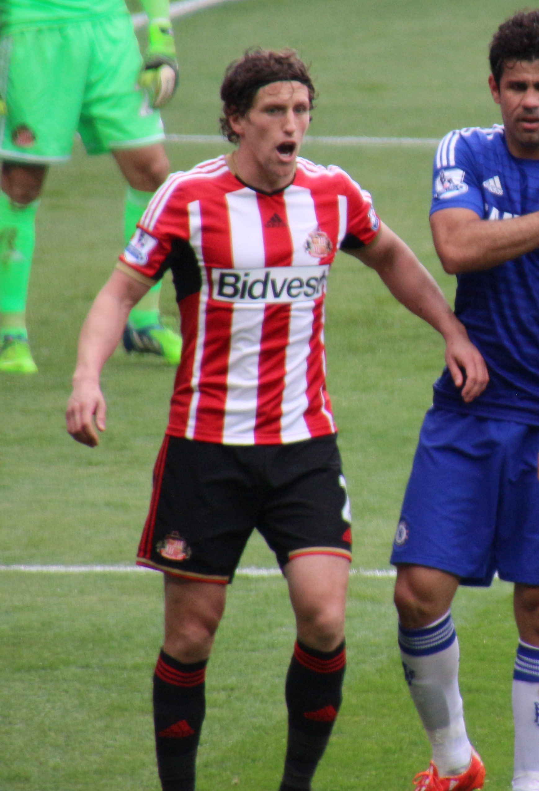 Chelsea 3 Sunderland 1 Champions!